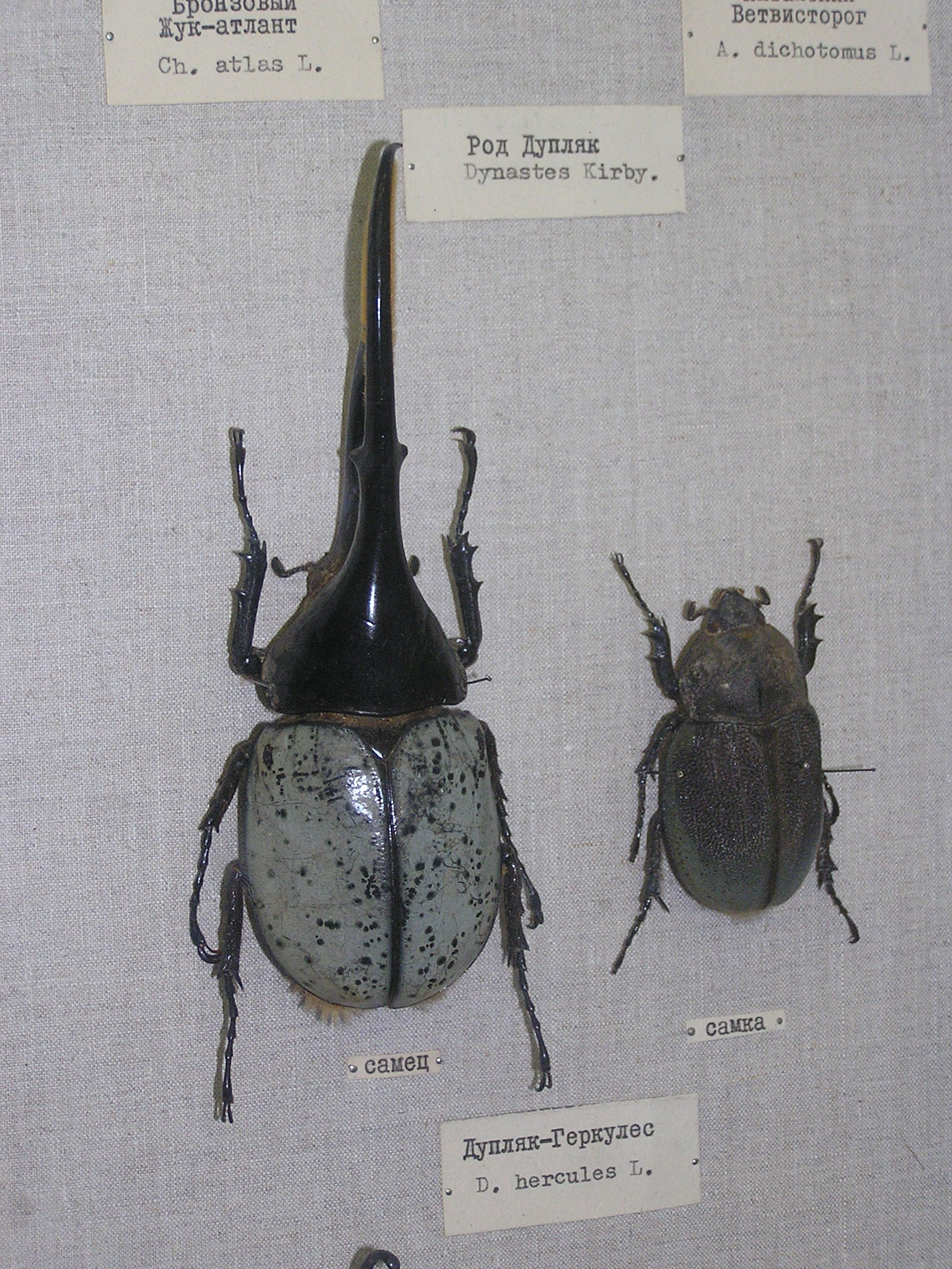 Dynastes hercules